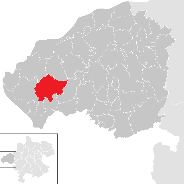 district Braunau am Inn